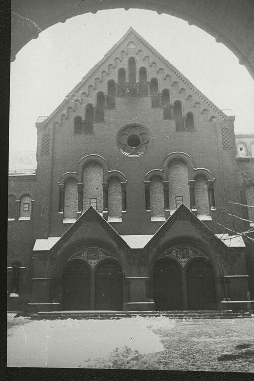 Description: Rykestrasse Synagogue; Berlin Creator/Photographer: Unknown Medium: Black and white photographic print Date: ca. 1950 Repository:Leo Baeck Institute Parent Collection: Herbert Seeliger Collection Call Number: AR 3957 Rights Information: No known copyright restrictions; may be subject to third party rights. For more copyright information, click here. See more information about this image and others at CJH Archives and Library Catalog.